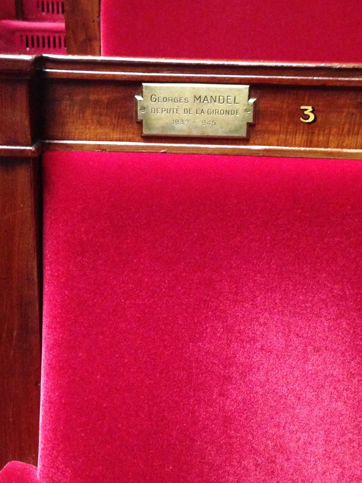 Georges Mandel, fauteuil 5